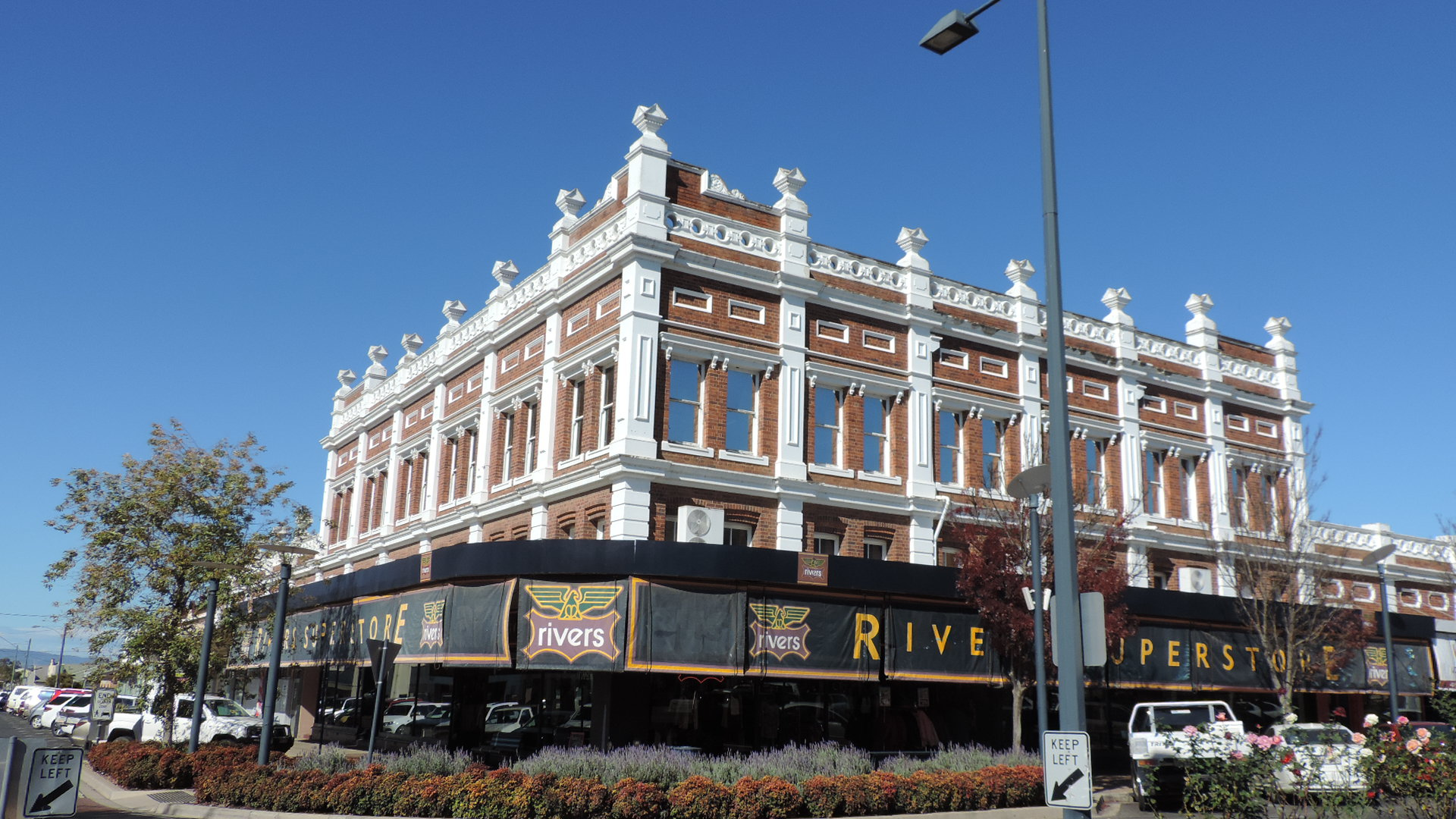 Smith & Miller Building, 118 - 124 Palmerin Street & 50 King Street, Warwick, 2015